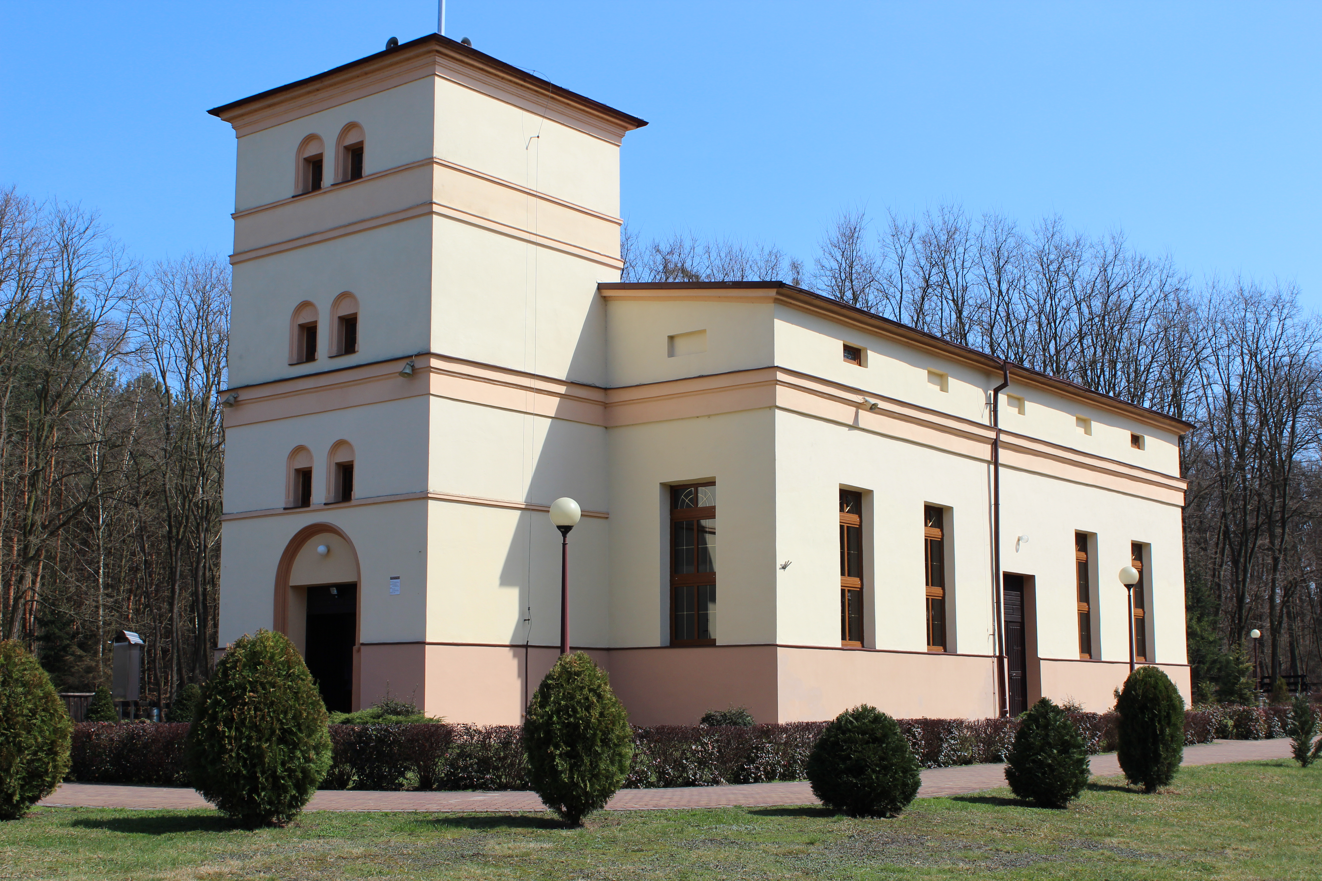 Church of saint Anna in Milicz Poland overall view